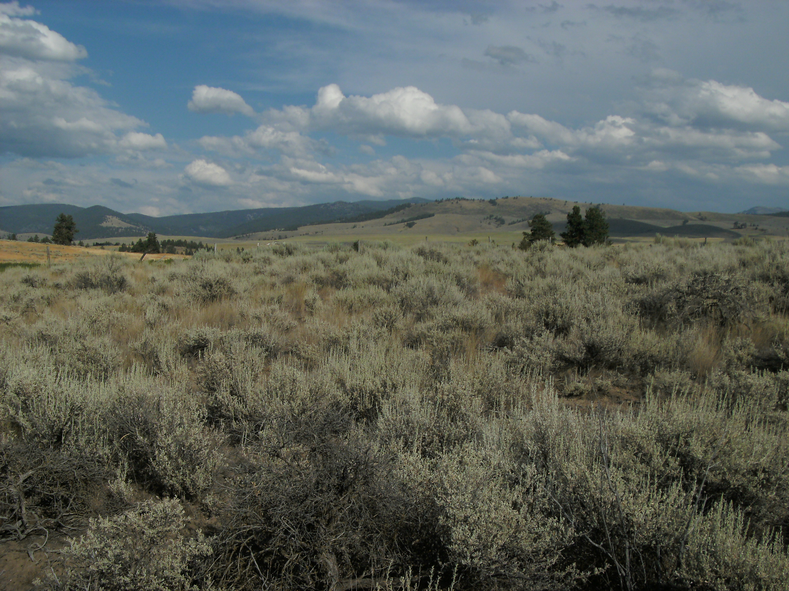 Looking towards the western slopes of the Sapphire Mountains from Bitterroot Valley, in the Beaverhead-Deerlodge National Forest near Stevensville, western Montana. With Artemisia tridentata in the Sagebrush steppe habitat. Credits Photo taken July 2010 by John David Stutts.